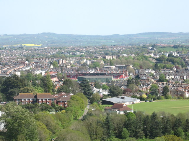 St James' Park. A view from the Physics building in Exeter University of St James Park and the surrounding residential streets